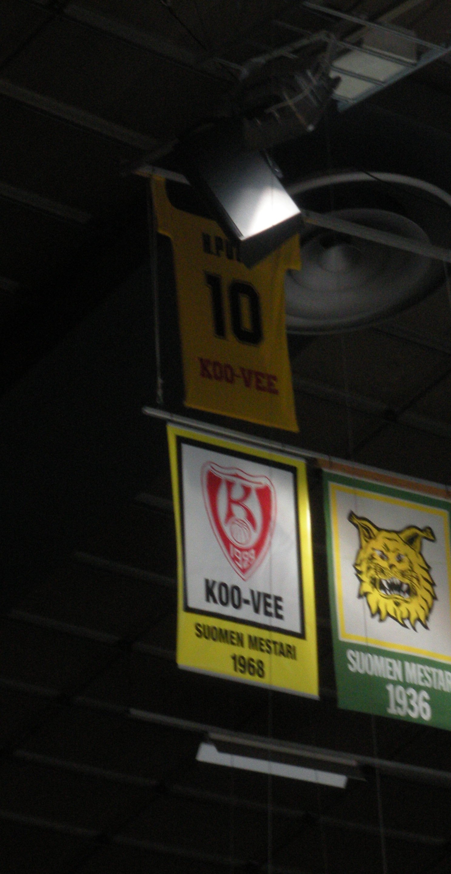 Koovee's championshipbanner ja retired number